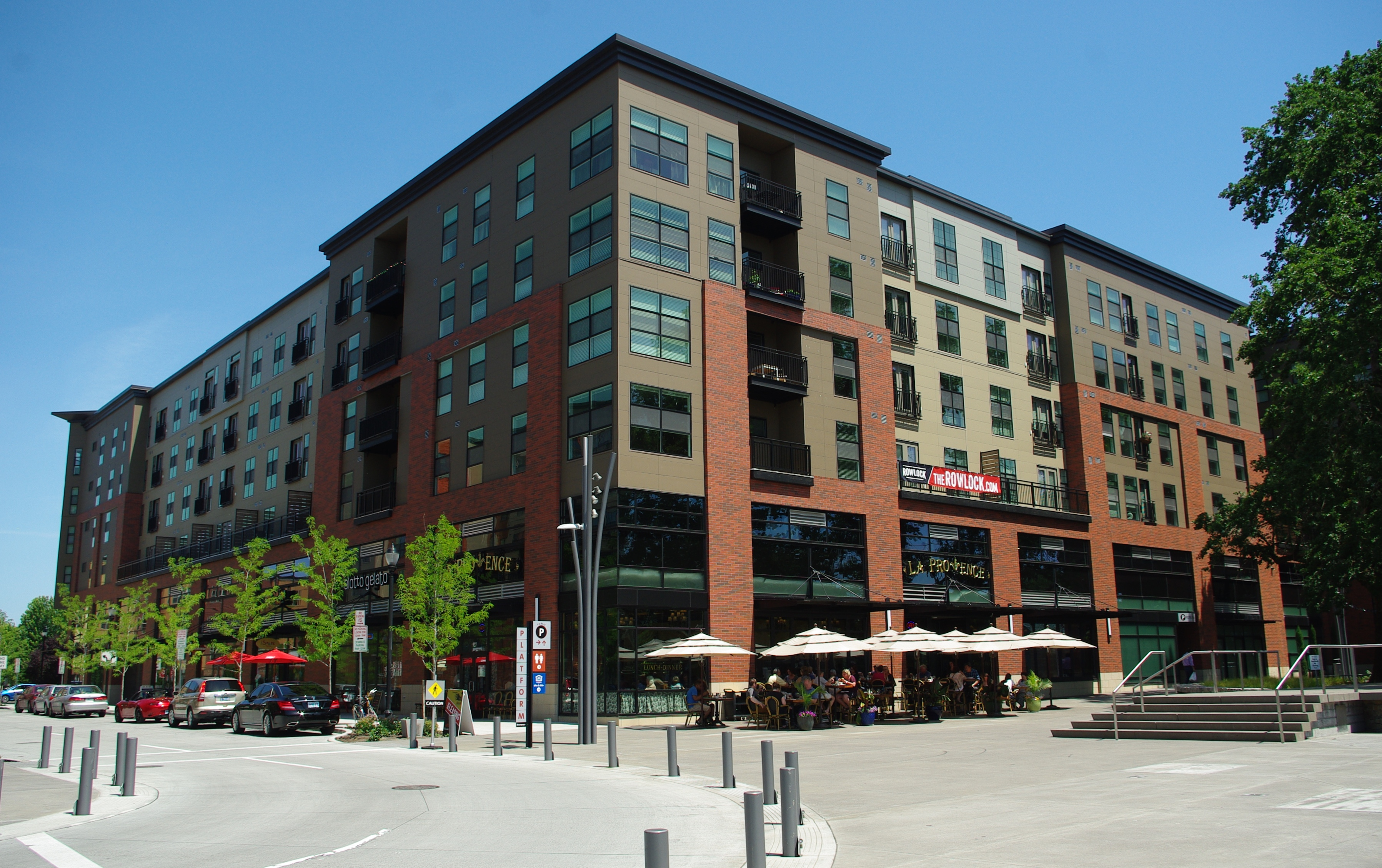 Rowlock Apartments in the Platform District in Hillsboro, Oregon. Copyright info.